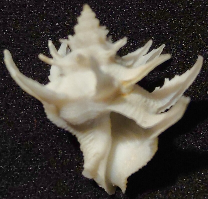 Babelomurex Armatus Front